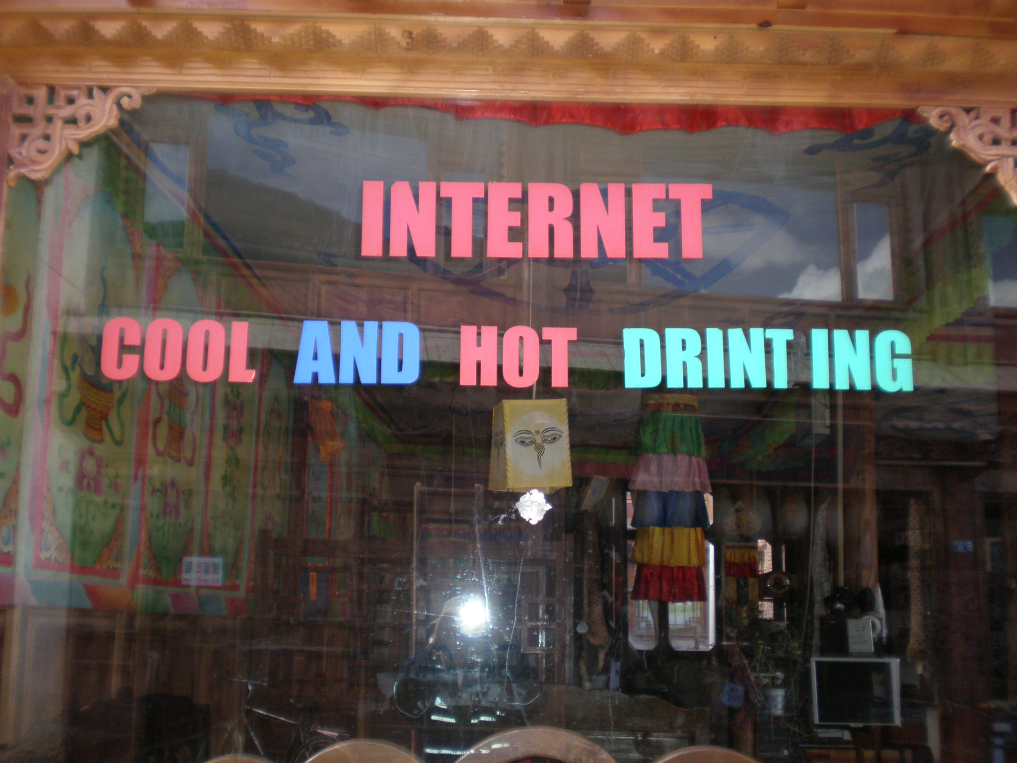 The Lhasa Restaurant in the Old Town of Shangri-La, Yunnan, China.